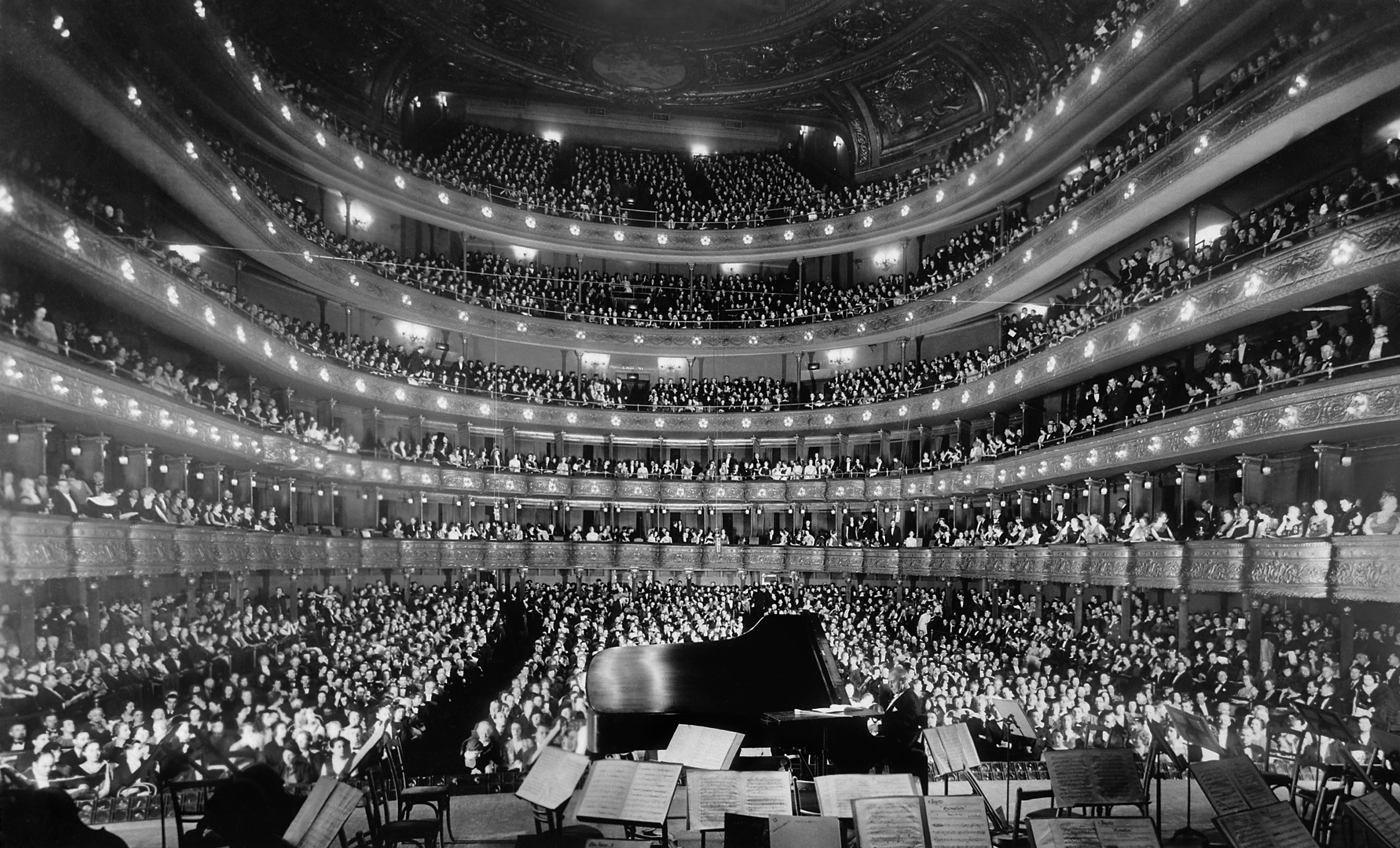 The former Metropolitan Opera House (39th St) in New York City. A full house, seen from the rear of the stage, at the Metropolitan Opera House for a concert by pianist Josef Hofmann, November 28, 1937.